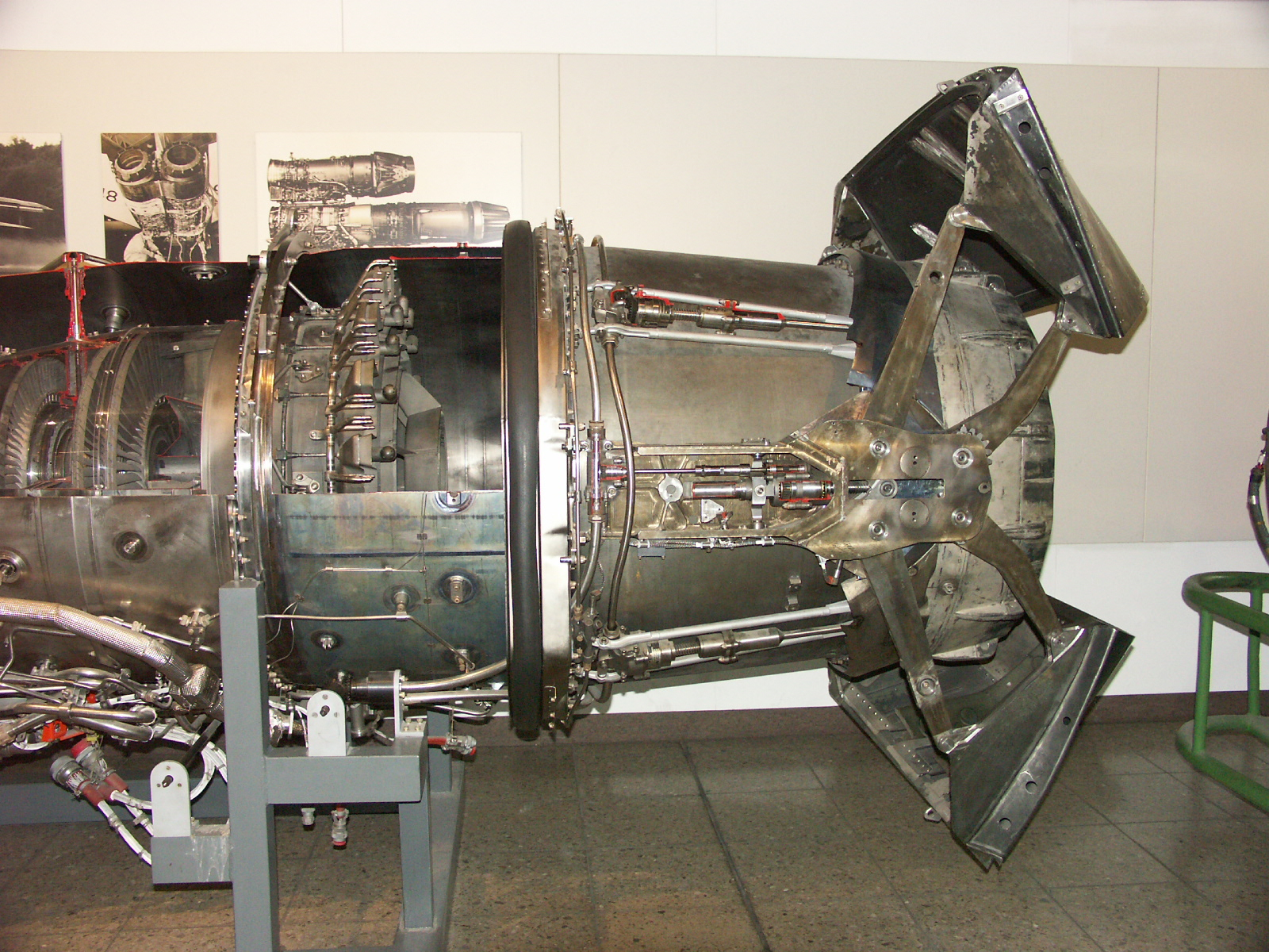 Rear section of a Rolls-Royce RB.199 afterburning turbofan at Deutsches Museum Munich